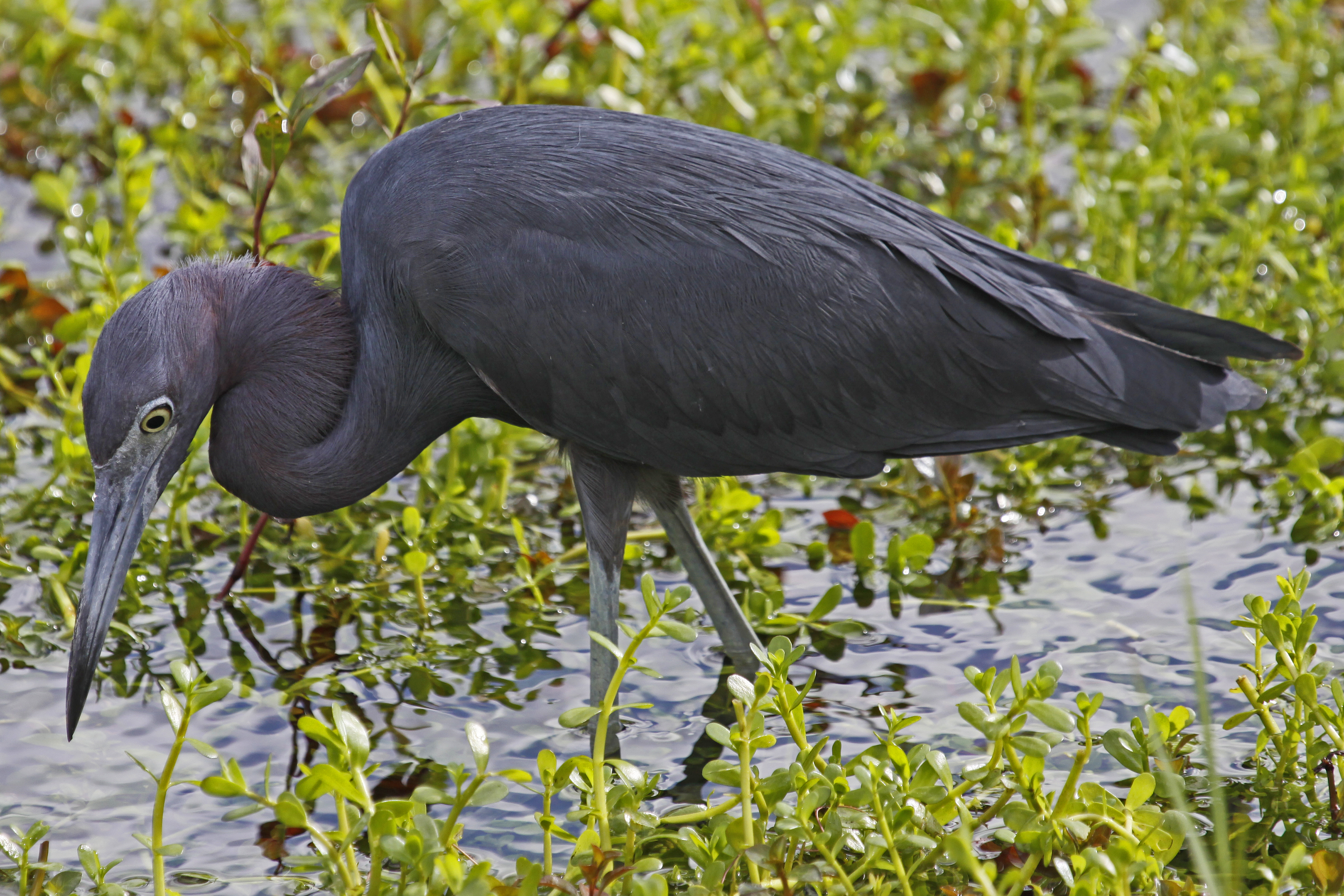 Little Blue Heron - Egretta caerulea, Anhinga Trail, Everglades National Park, Homestead, Florida.